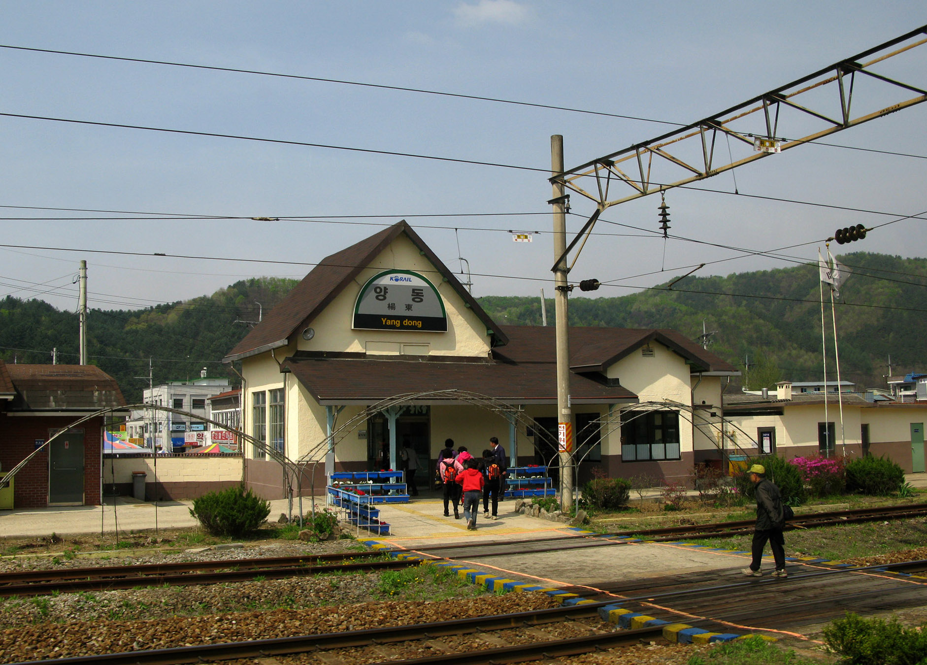 Jungang Line Yangdong Station